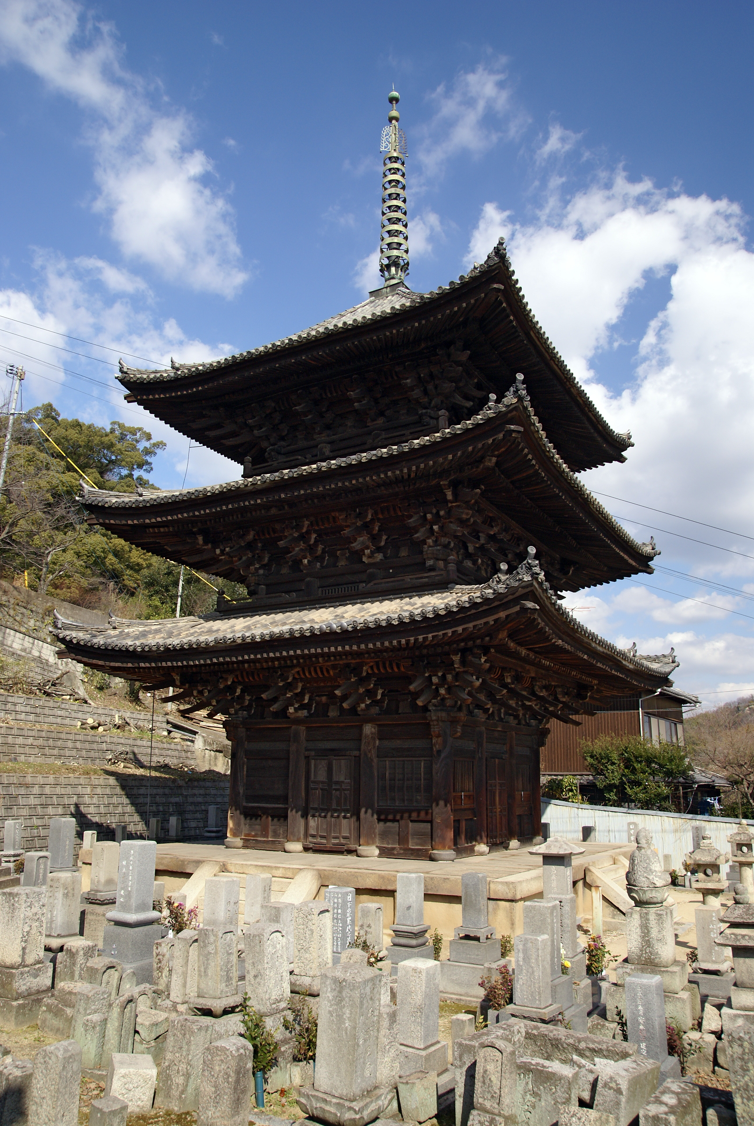 Tenneiji in Onomichi, Hiroshima prefecture, Japan